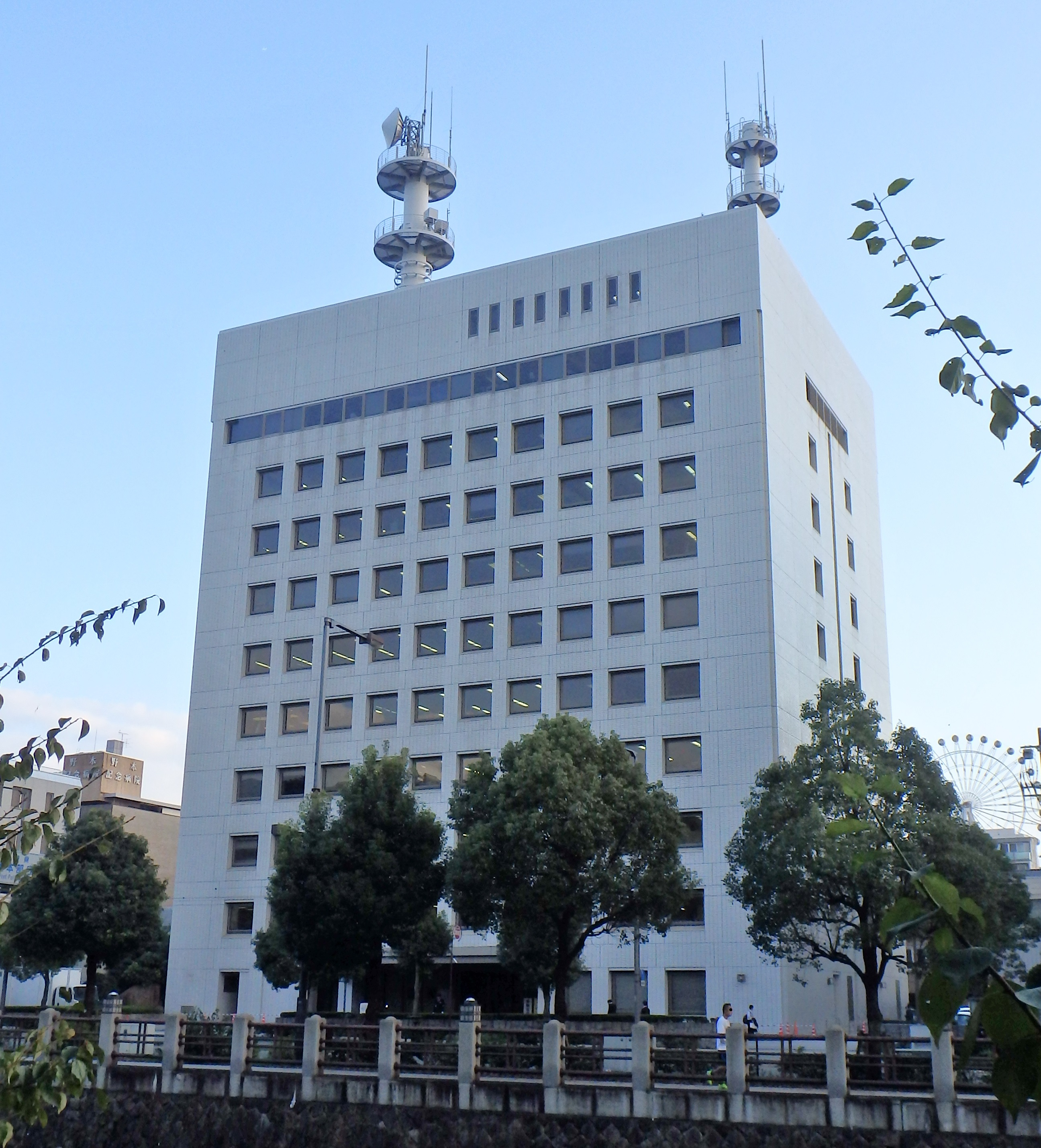 Ehime Prefectural Police Headquarters,Ehime prefecture,Japan